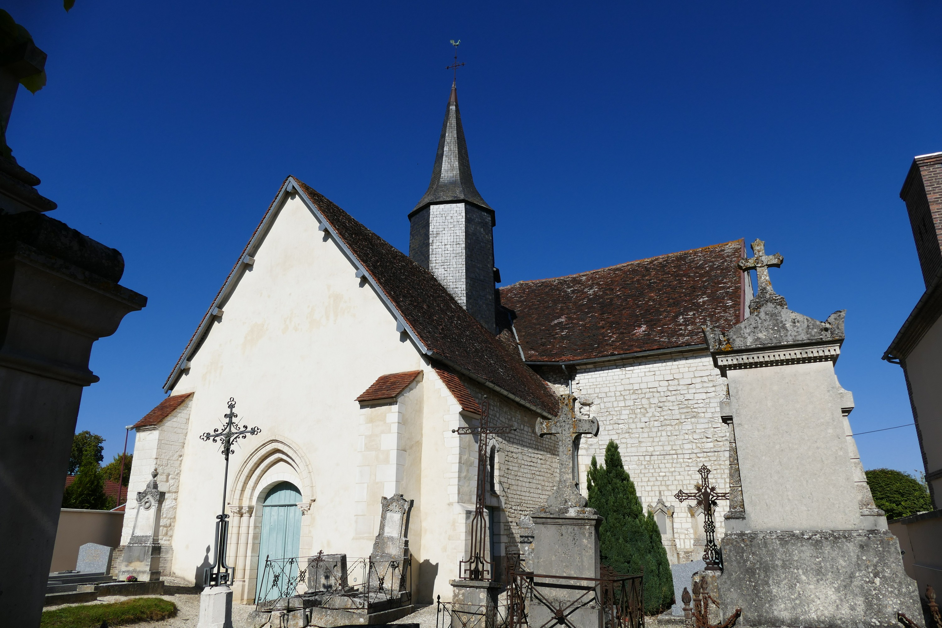 The-Nativity-of-Our-Lady's church in Le Pavillon-Sainte-Julie (Aube, Champagne-Ardenne, France).